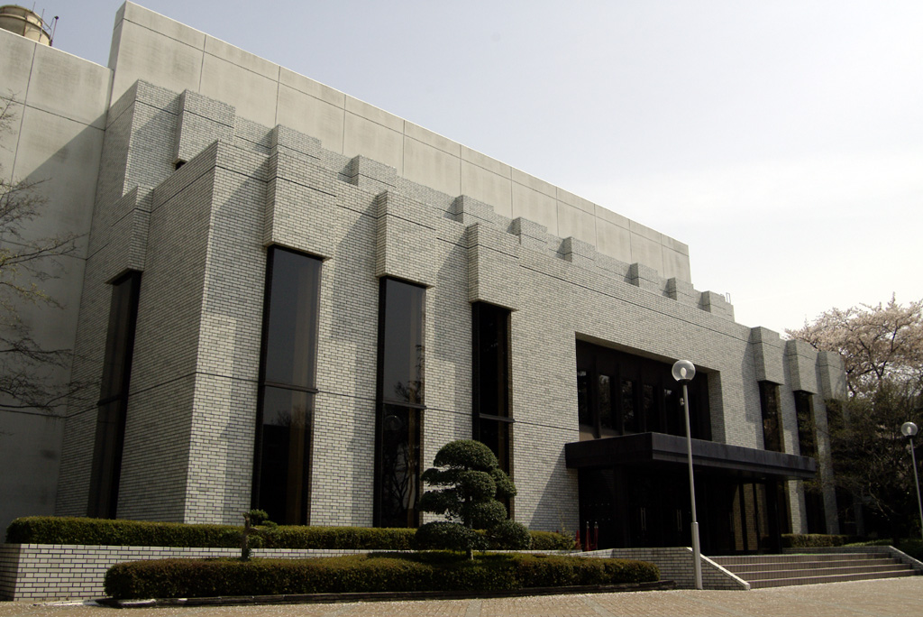 University of Electro-Communications lecture building